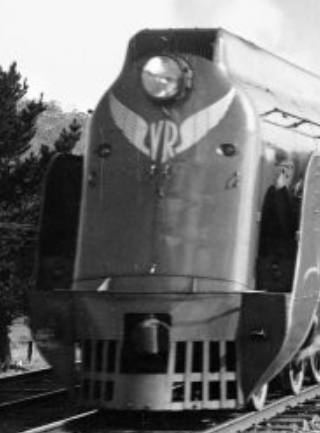 Victorian Railways logo shown on the front of a S-class locomotive, ca. 1938.